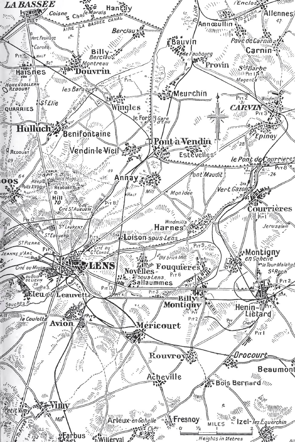 Map of the Artois area (east) 1915